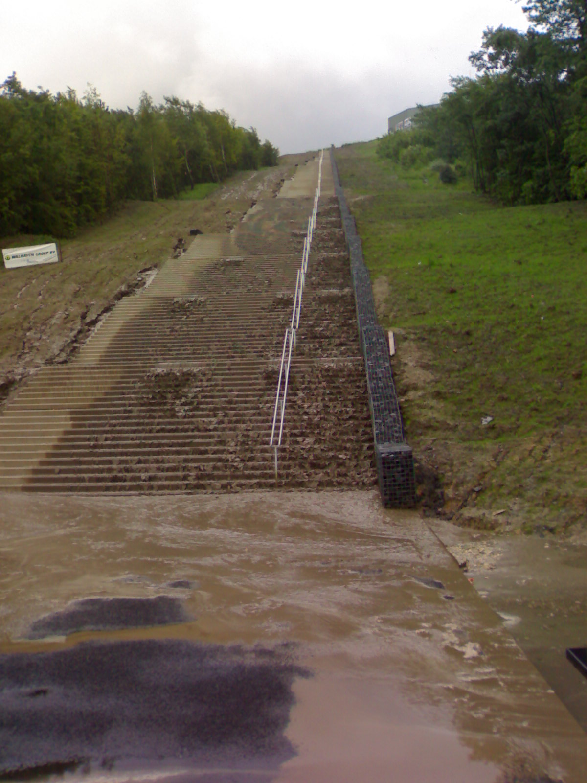 Stairs on the Wilhelminaberg during a big rain storm